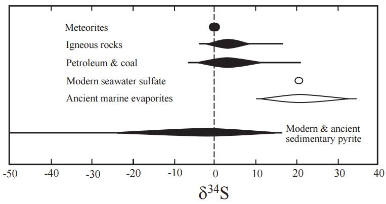 δ34S of various geologic reservoirs. Modified from Seal et al. (2000a). All isotopic values in permil (VCDT).